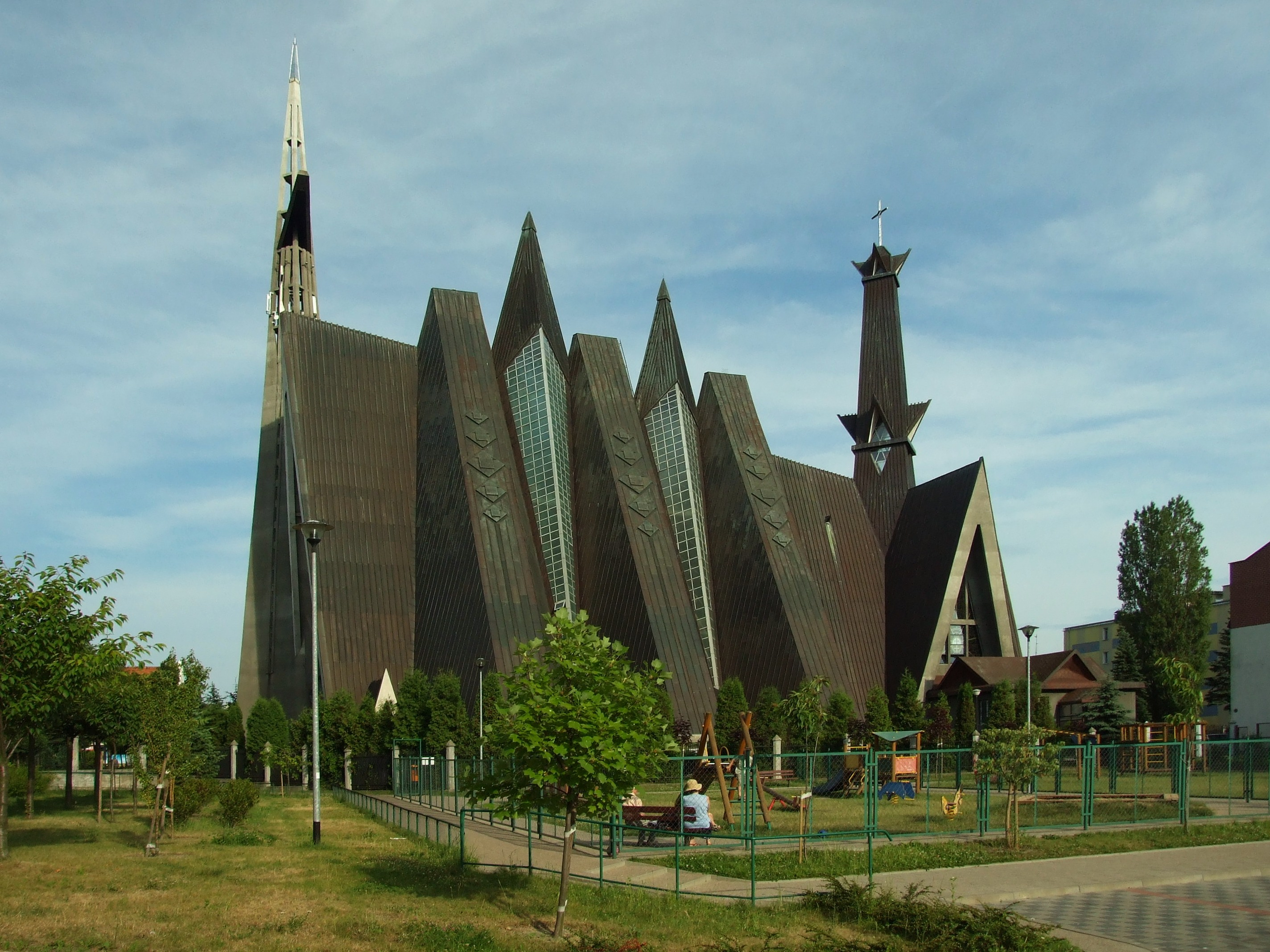 Church of the mother of God - queen of Poland. This is one of the newer churches in Elbląg, completed in 1991. Warmia-Masuria Voivodeship, Poland